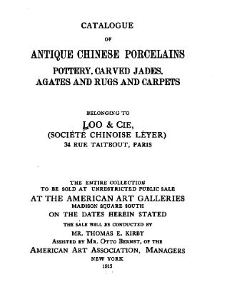 Title page of 1915 Catalog